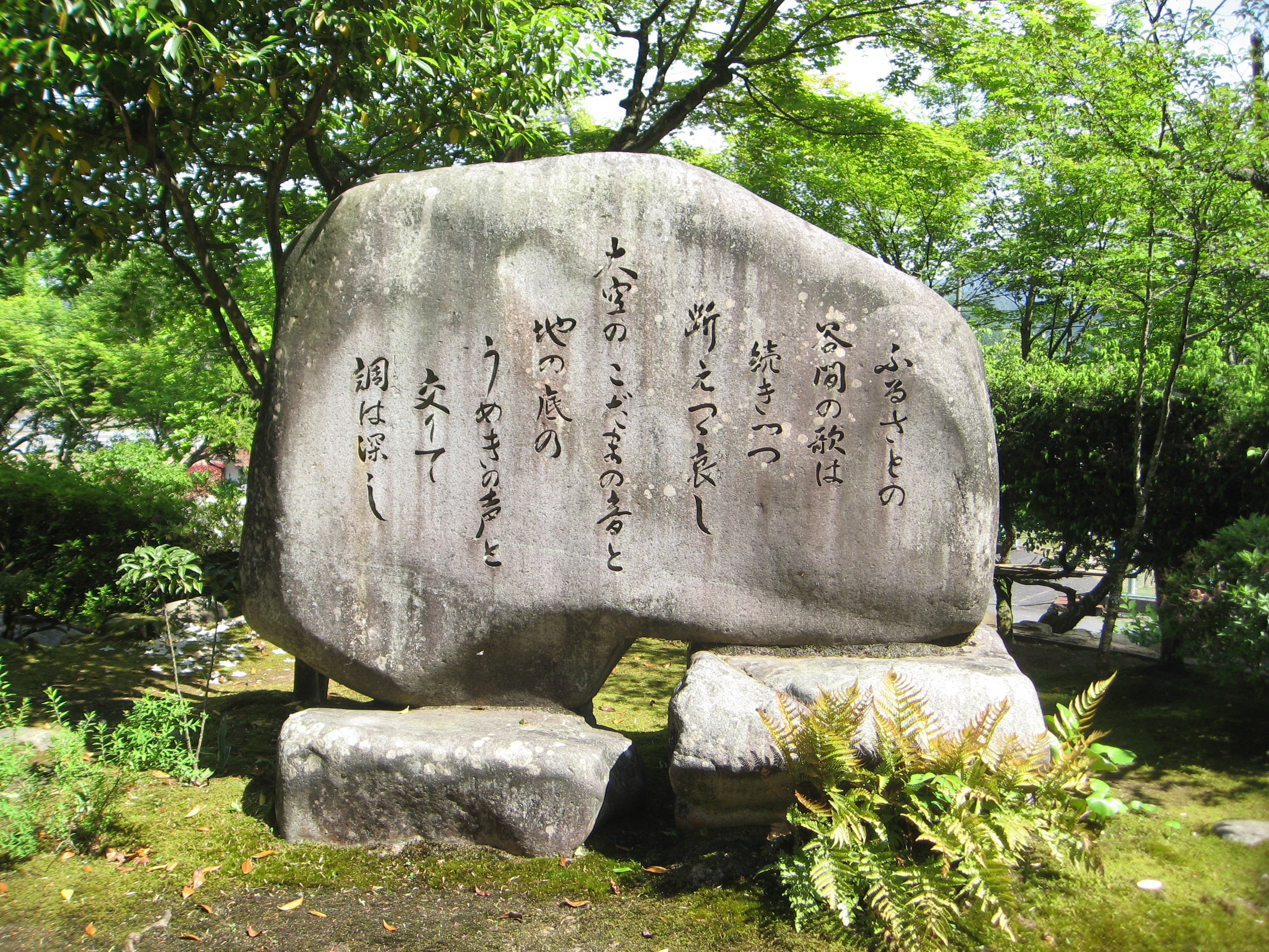 Poetry monument of Irako Seihaku in Shohoji Temple